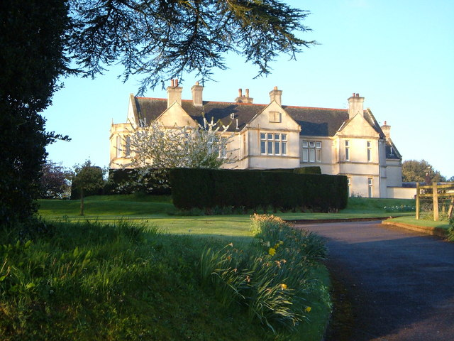 Newton House, Newton St Cyres. The grand house in the village was rebuilt in 1909 after a fire.